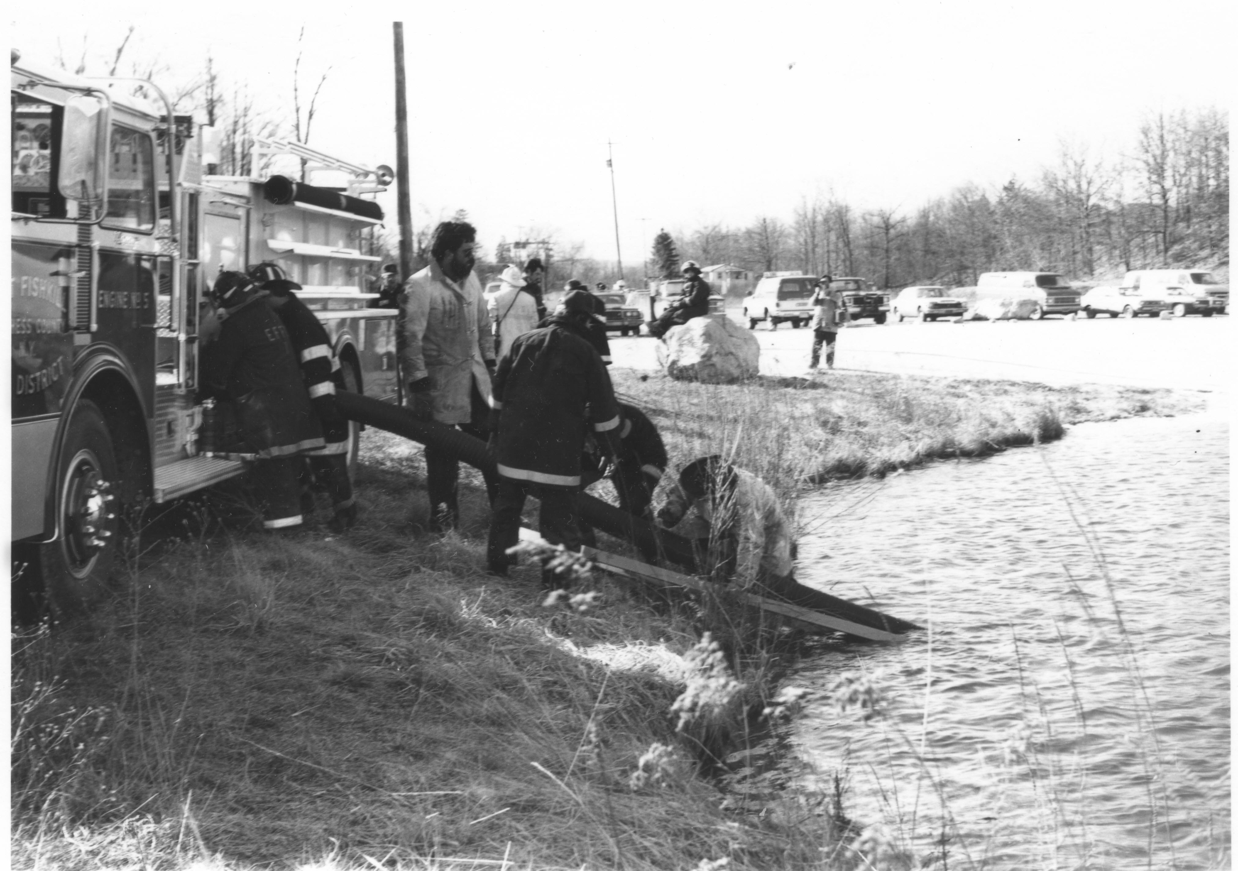 Fire engine drafts water from a pond.